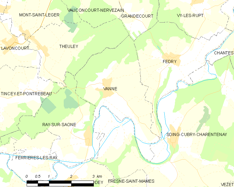 Map of French municipality